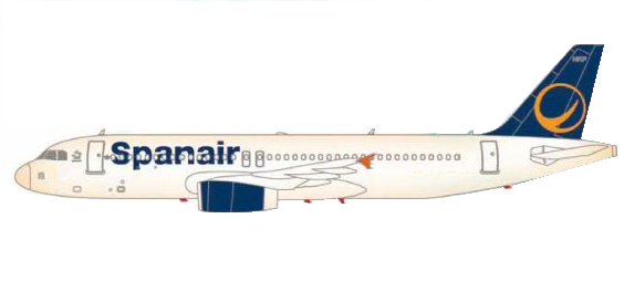 Airbus A320 in new livery. Painted by me.